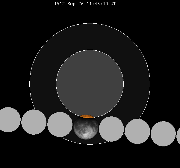 September 1912 lunar eclipse chart of moon's path through the earth's shadow. thumb